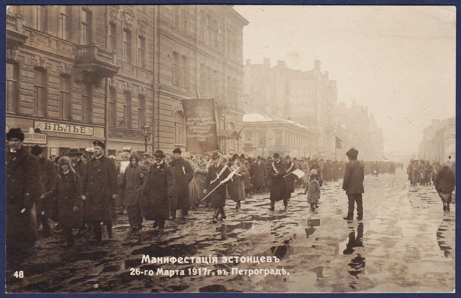 Demonstration of estonians in Petrograd, Russia, March 1917. Carte Postale (Open Letter) of the period